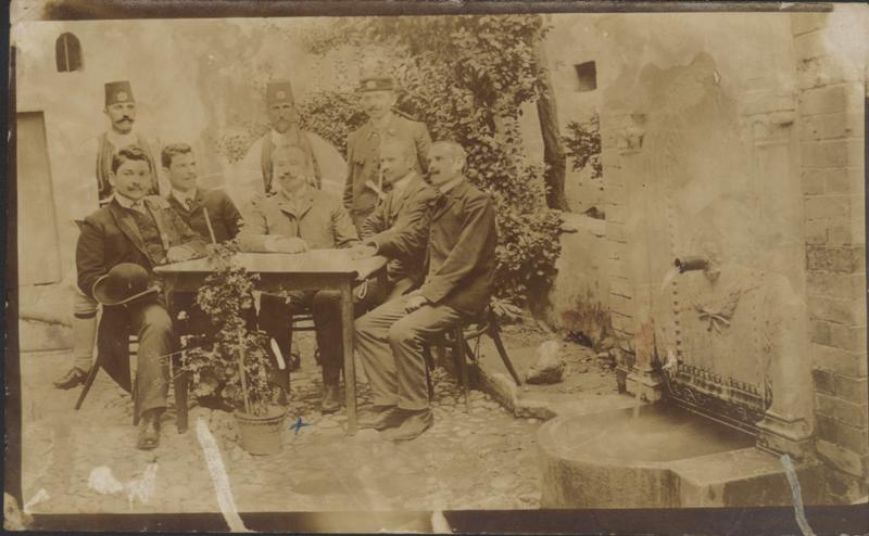 Georgi Kozhuharov in the Bulgarian Consulate in Serres by Dimitar Karastoyanov